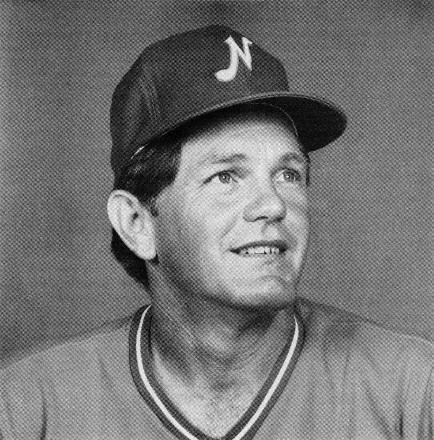 Manager Johnny Oates of the 1982 Nashville Sounds Minor League Baseball team of the Southern League